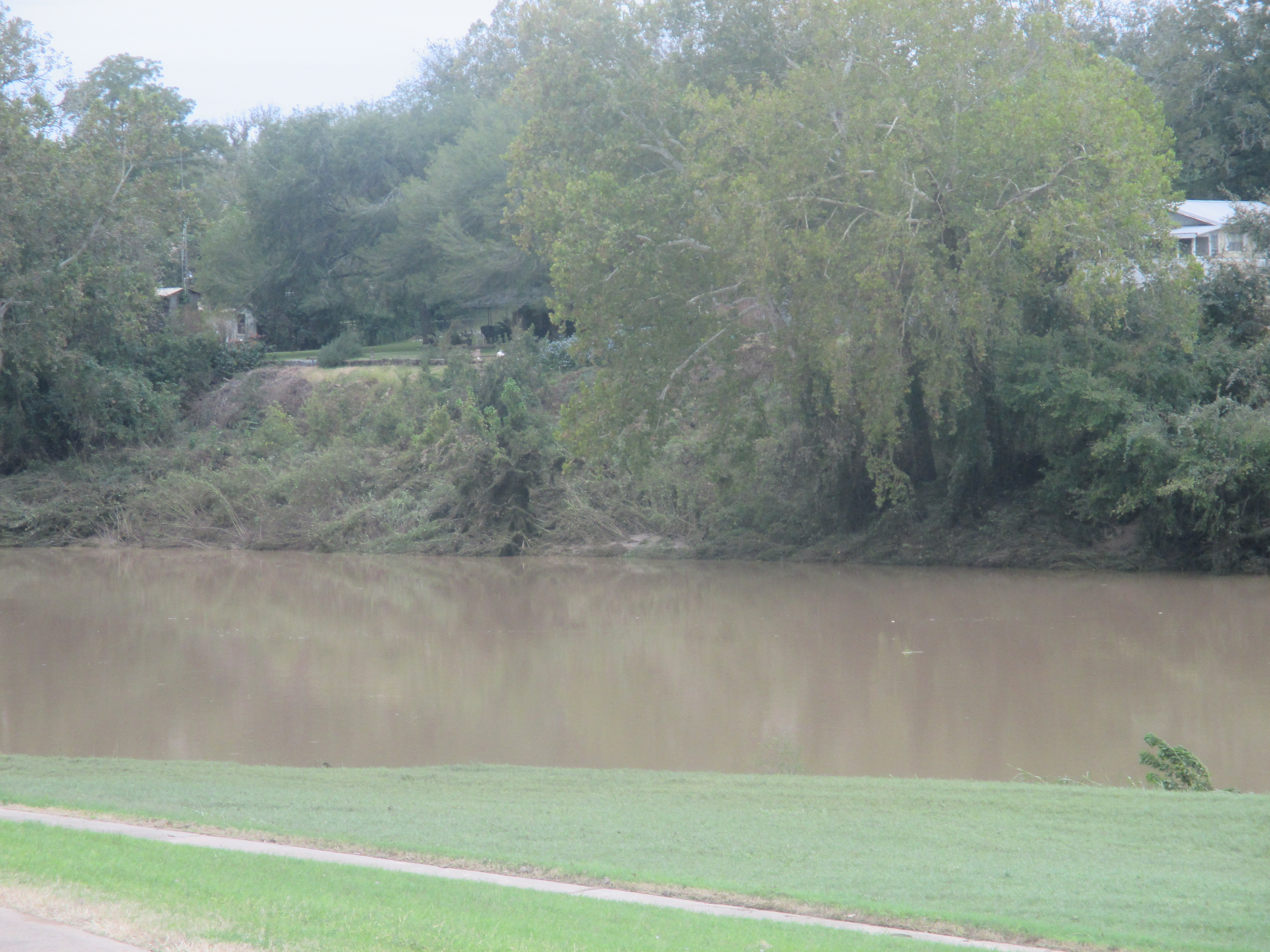 I took photo of Colorado River east of Columbus, TX, with Canon camera.